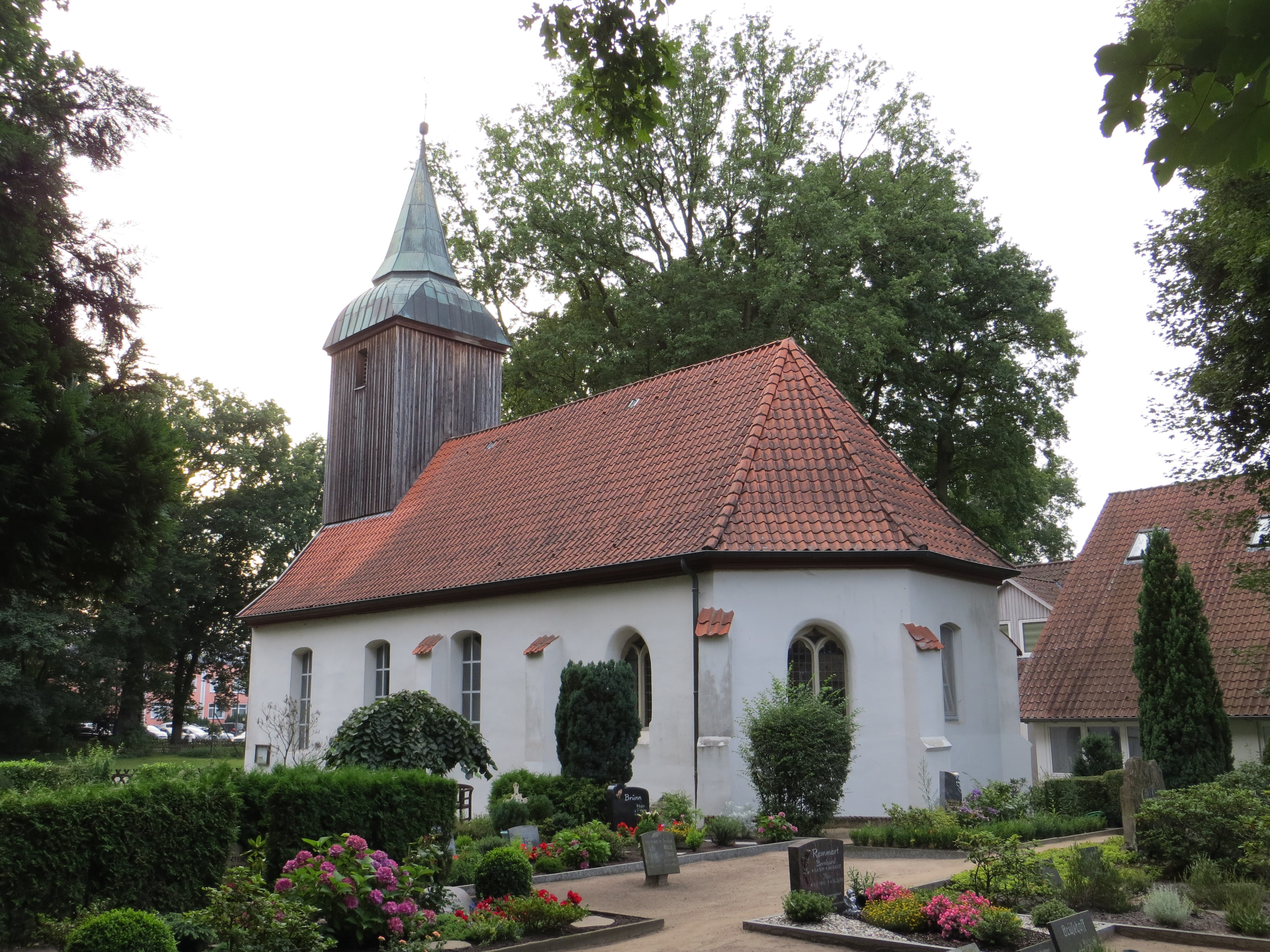 Church St. Thomas and Maria at Hodenhagen, near Walsrode, Lower Saxony, Germany